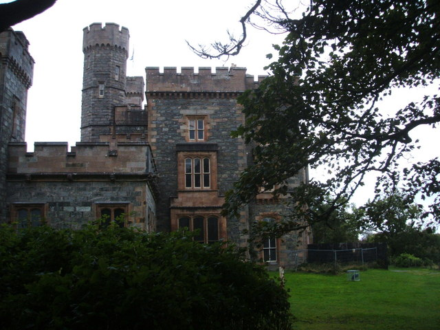 Lews Castle, partly boarded up